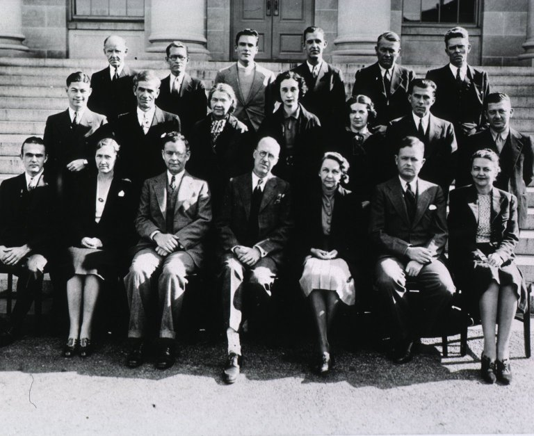 U.S. National Institutes of Health, Division of Biologics Control. Includes Margaret Pittman, Sarah E Stewart, Sara E Branham, Bernice Eddy, Marguerite Lyons, Sadie A Carlin.